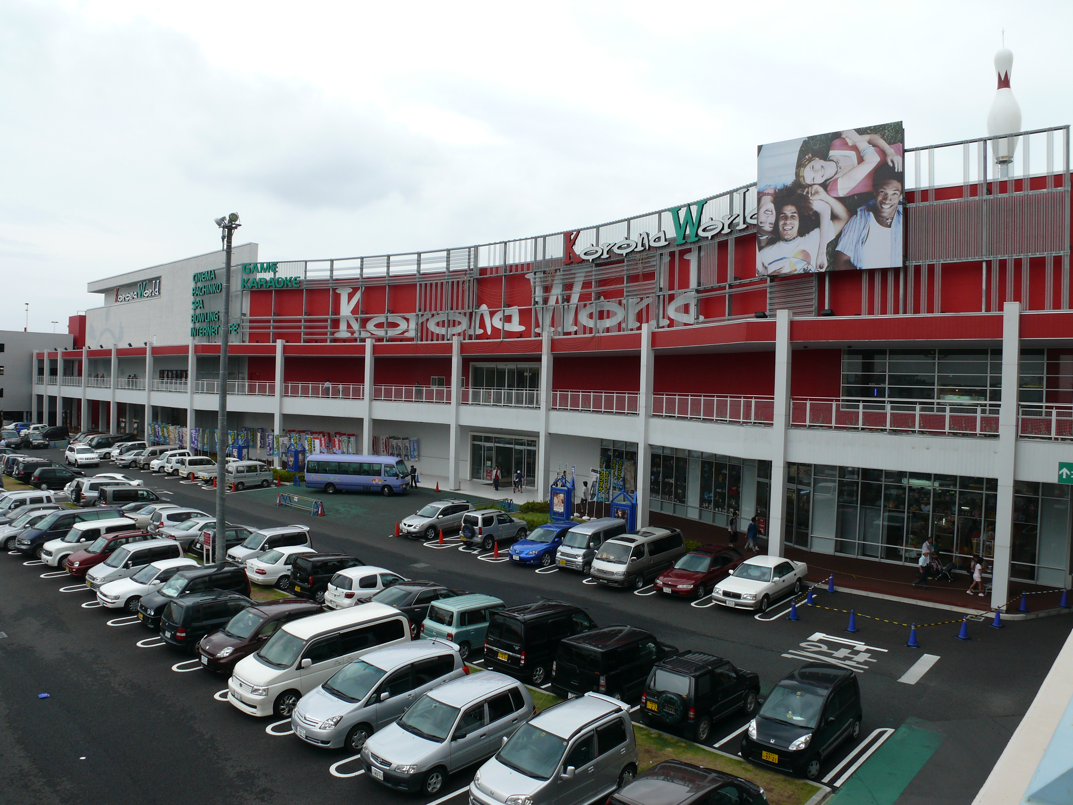 LOC City Ogaki Shopping Center.